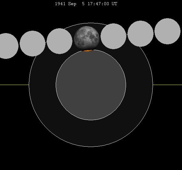 Lunar eclipse chart of moon's path through the earth's shadow. thumb